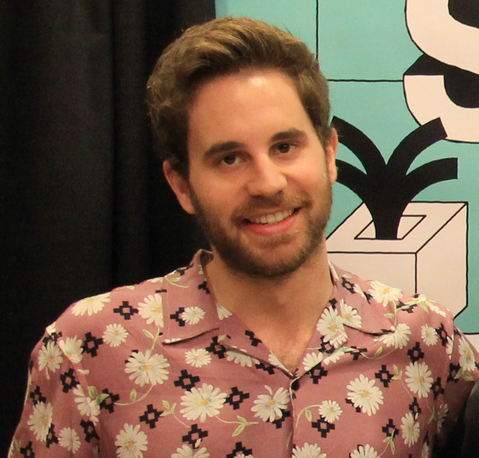 Ben Platt, Nina Dobrev, Mena Massoud, Scott Speedman, Ricky Tollman at SXSW during our round table interviews.